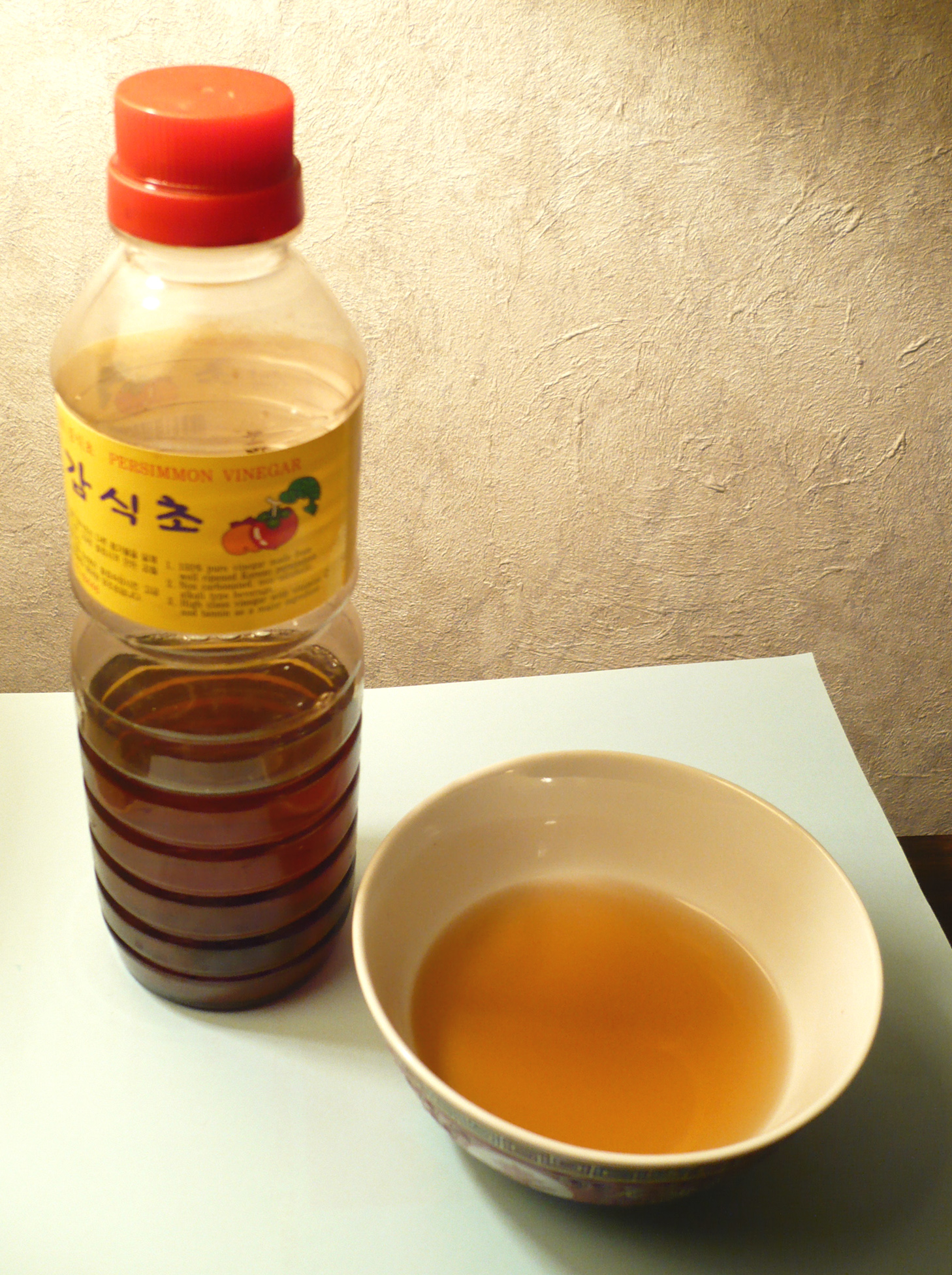 A plastic bottle of commercially produced persimmon vinegar, with a small bowl of the same. Photo taken in Kent, Ohio with a Panasonic Lumix digital camera (model DMC-LS75). Persimmon vinegar purchased from a northeast Ohio-area Korean grocery store. Persimmon vinegar produced in South Korea.